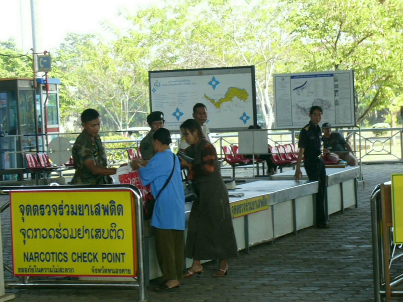 Checkpoint: Laotian Army soldiers and police officers search bags at the Thai–Lao Friendship Bridge before crossing the Thai border.